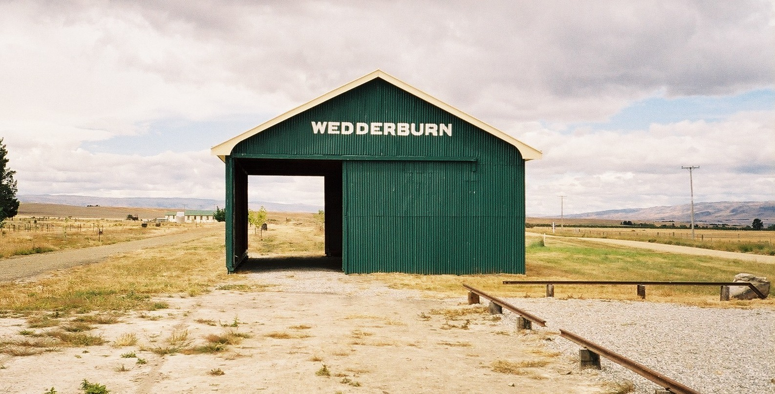 Wedderburn Shed, Otago Author: User:Velela. Location: Wedderburn, Otago, New Zealand Source: Personal photograph taken by Author December 2004 Description: The Wedderburn Goods Shed on the now abandoned stretch of Otago rail line. Technical data: Pentax MZ-5 camera.